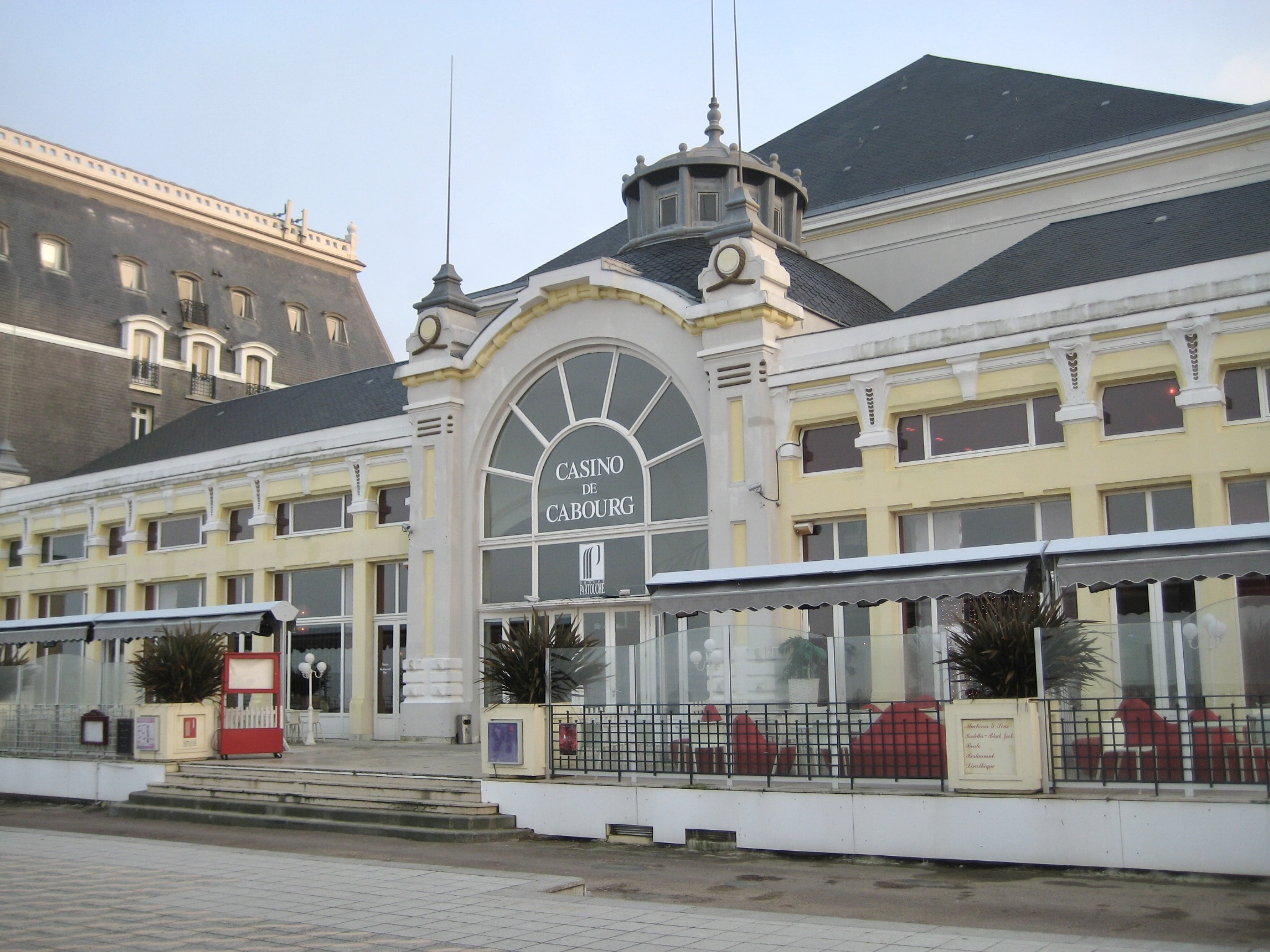 Casino of Cabourg, France